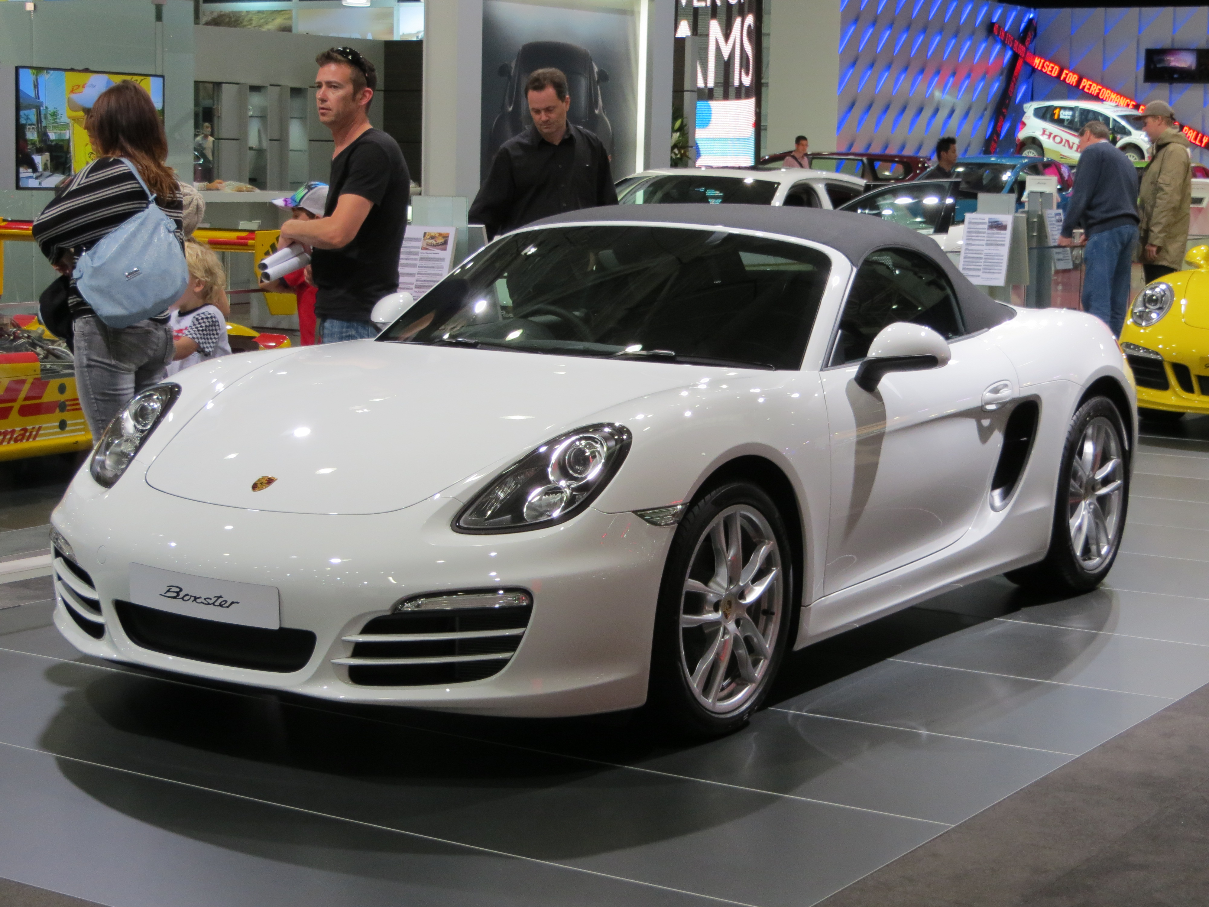 2012 Porsche Boxster (981) convertible. Photographed at the 2012 Australian International Motor Show, Sydney, New South Wales, Australia.